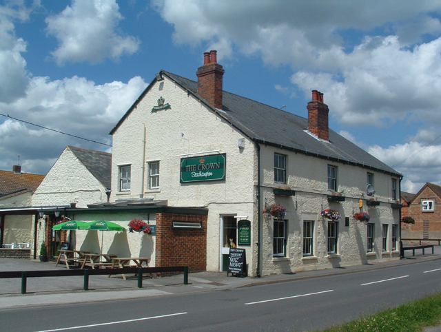 The Crown The Crown pub in Stadhampton on the busy A329 which passes through the village.